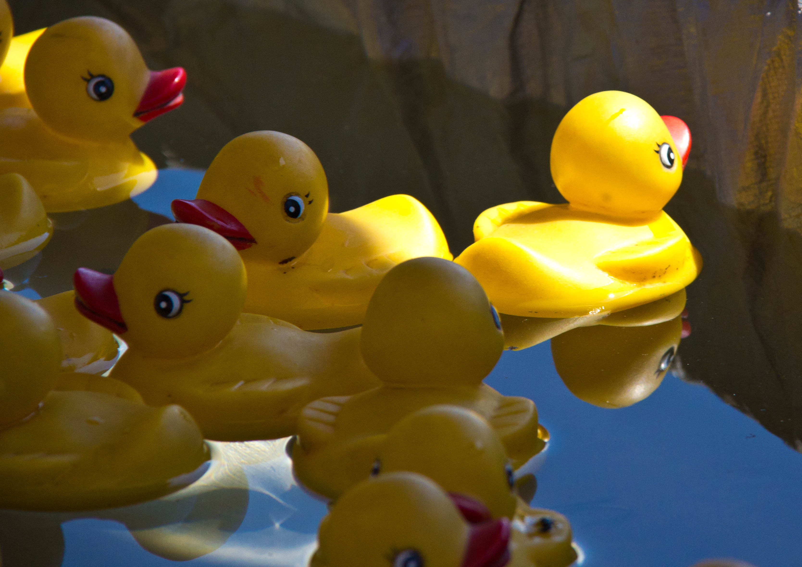 One Duck Dares to Dream